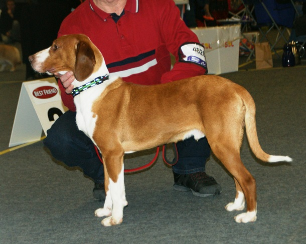 Posavac Hound male.